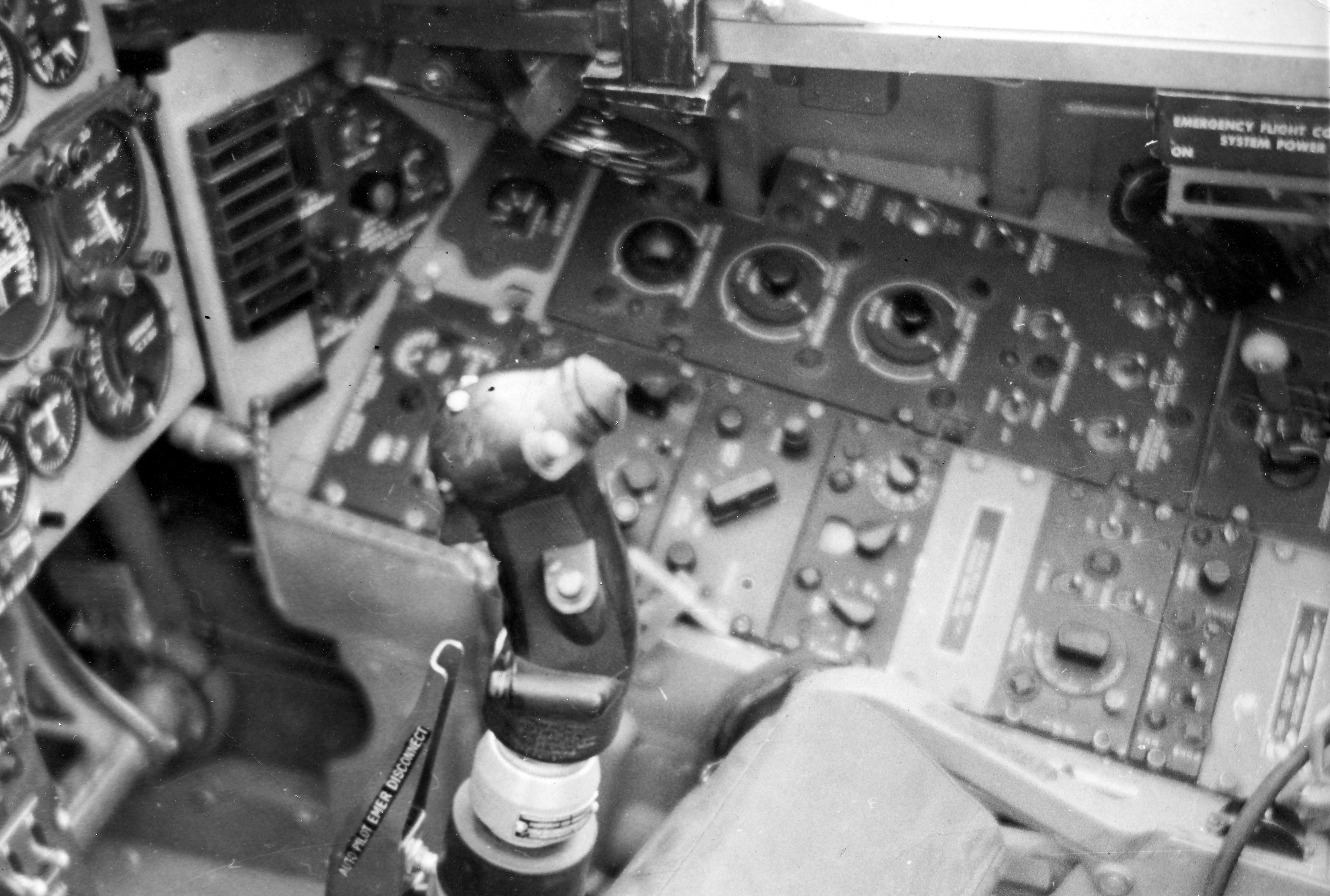 Cockpit of a Super Sabre at RAAF Base Richmond in 1958.